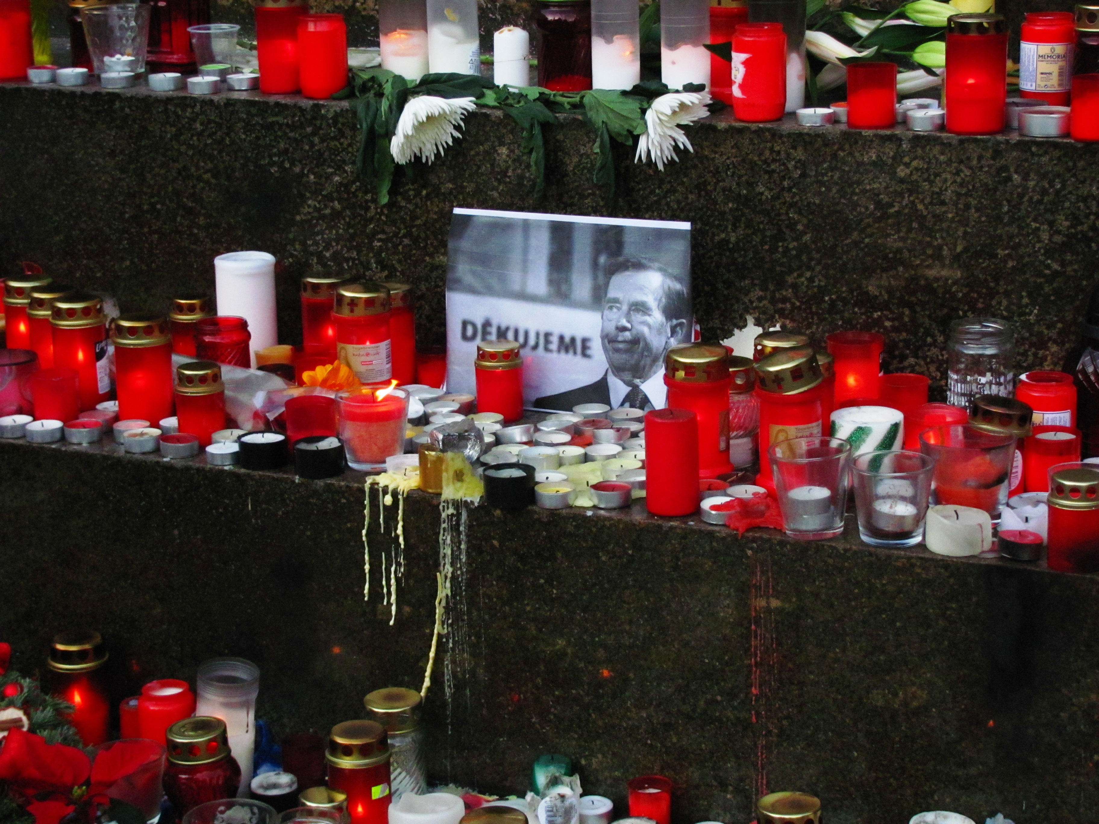 In memory of Václav Havel (Prague – Wenceslas Square, Dec.19th, 2011) Text: Thank you.